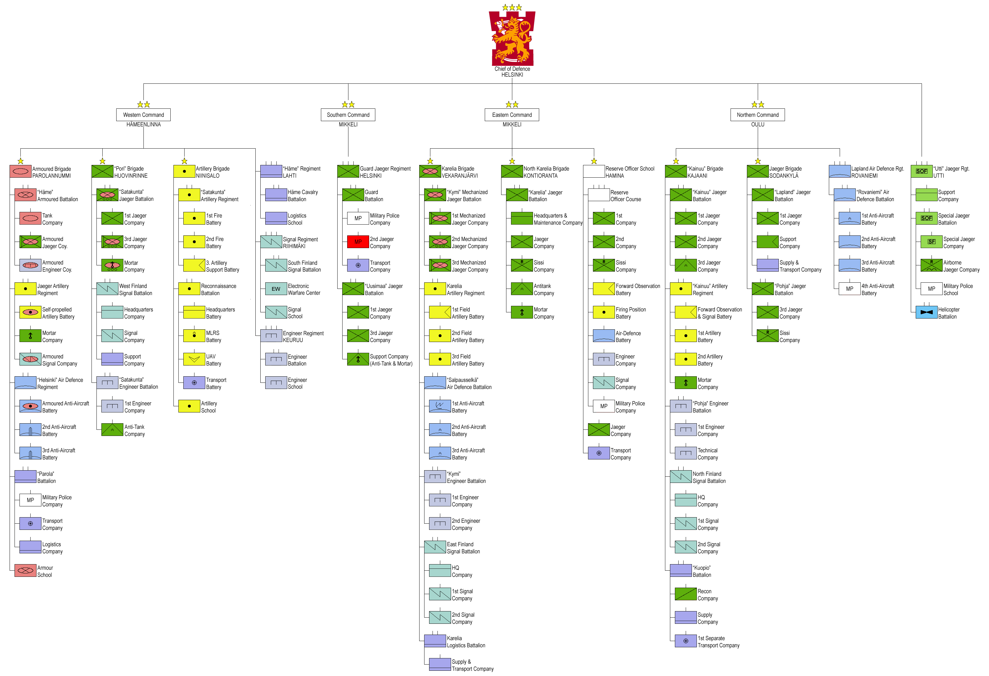 Organisation of the Finnish Army.